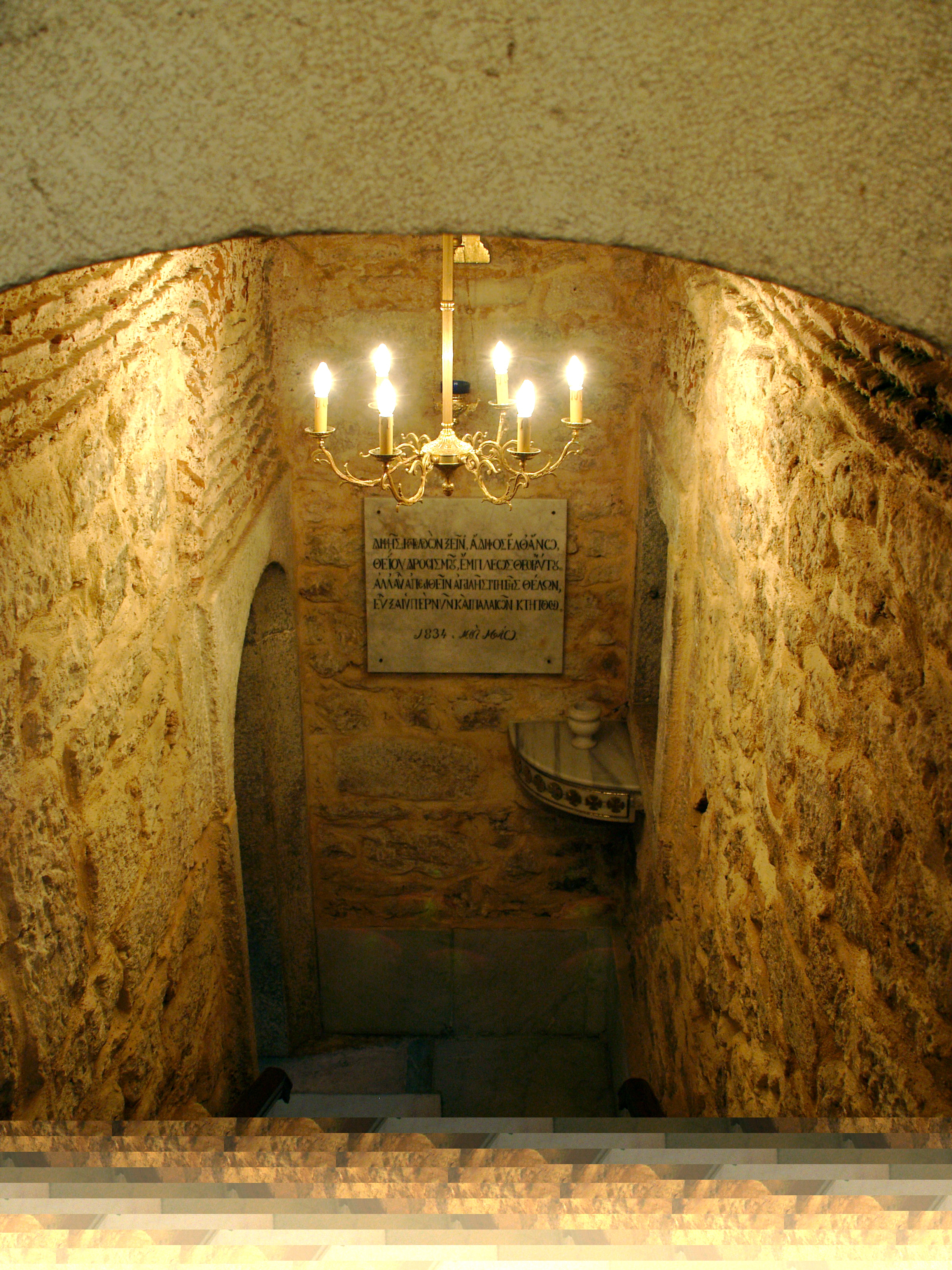 Turkey, Istanbul, Zoodochos Pege (Fish Church)